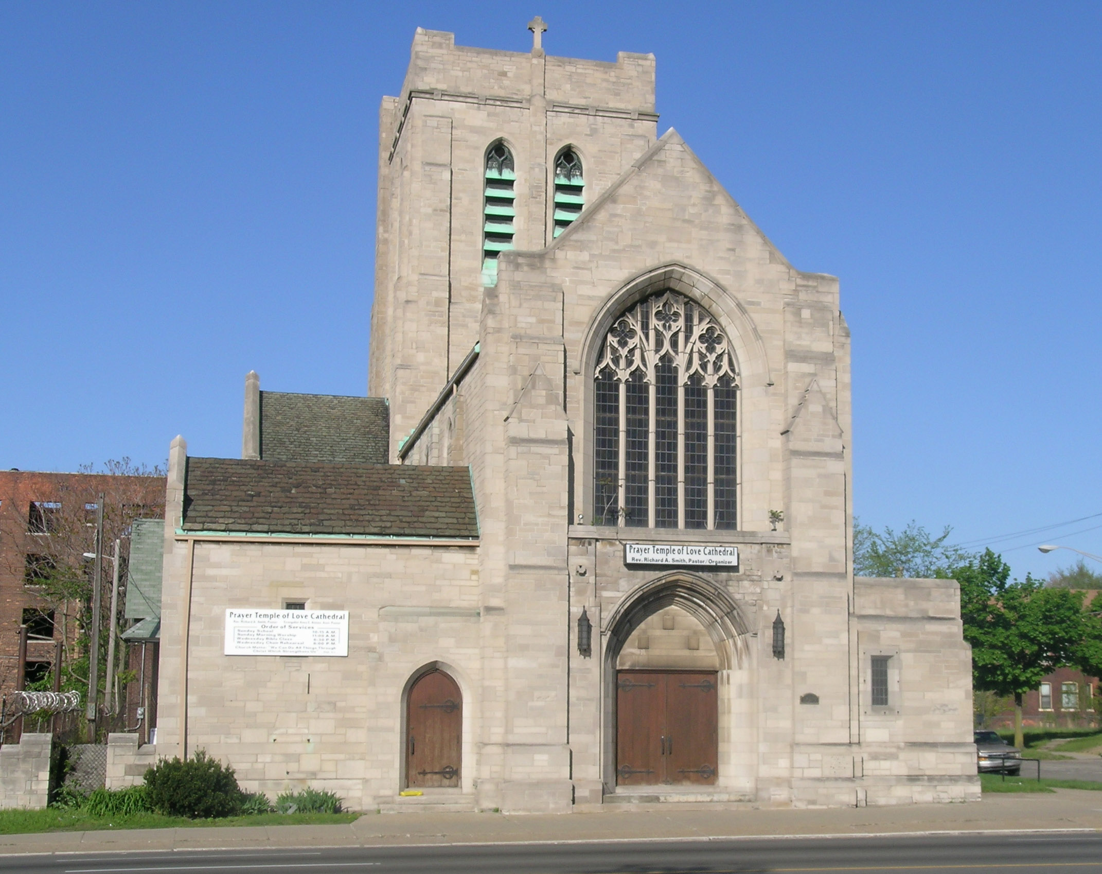 The historic Grace Evangelical Lutheran Church in Highland Park, Michigan, United States, seen here from across Woodward Avenue, is listed on the US National Register of Historic Places (NRHP). It is currently in use as a church under the name of Prayer Temple of Love Cathedral.NRHP reference number 82002919